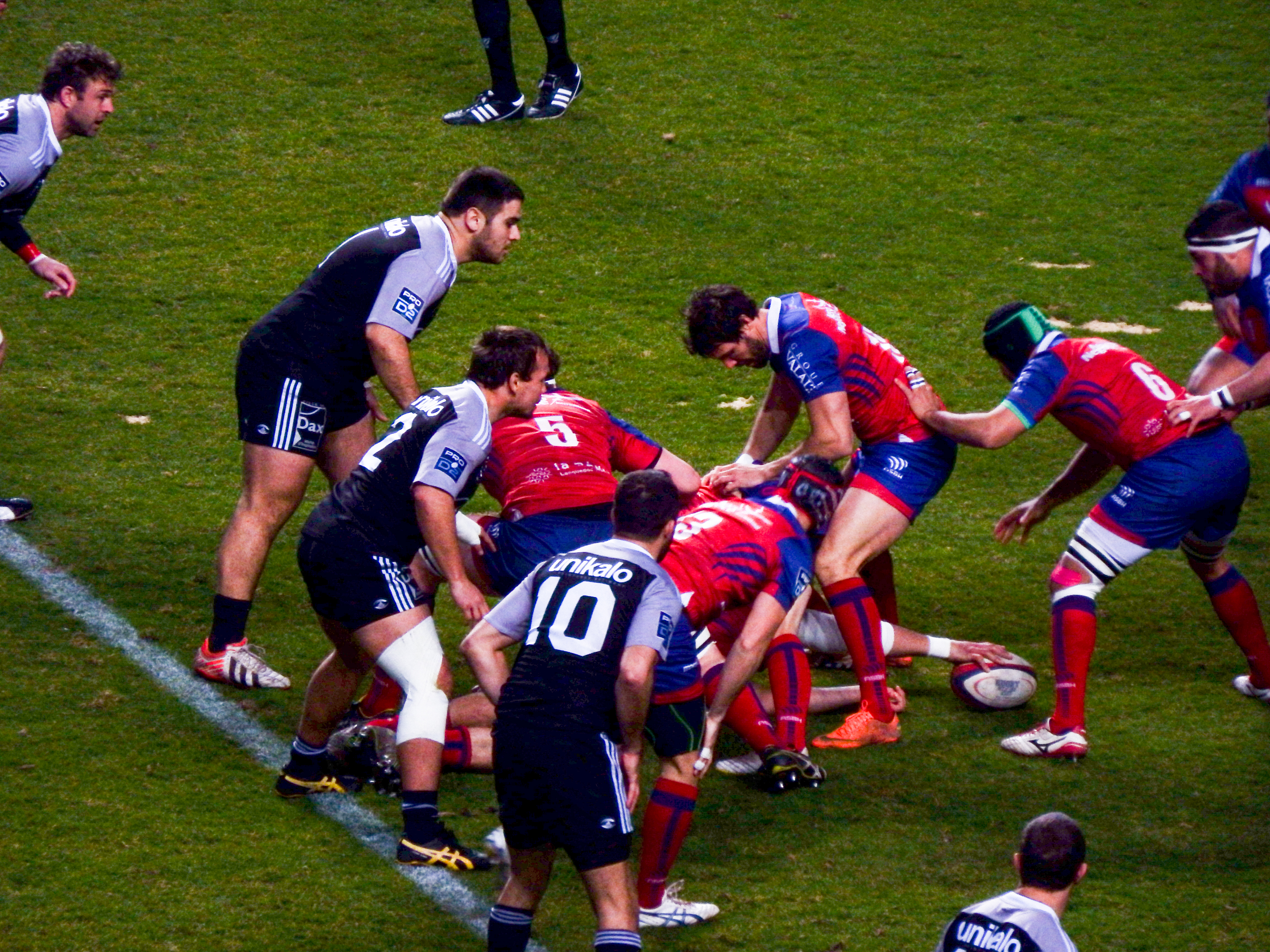 2014–15 Rugby Pro D2 season — 21 February 2015, stade de la Méditerranée. Match between: AS Béziers Hérault — US Dax